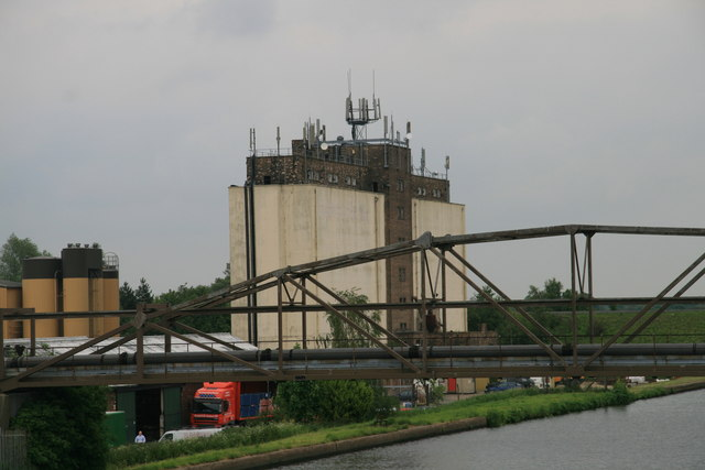 Mill of Masts Viewed from Whitley Bridge this mill at Eggborough Sleights stands on the banks of the Aire & Calder canal, bristling with rooftop communications antennae.